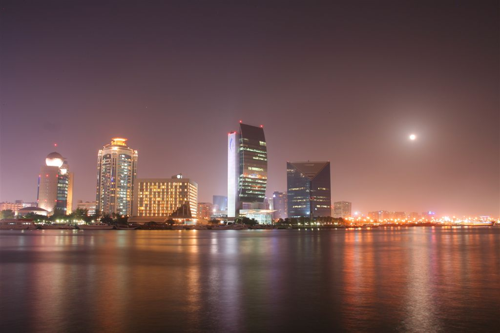 Deira, Dubai by night - march 2008